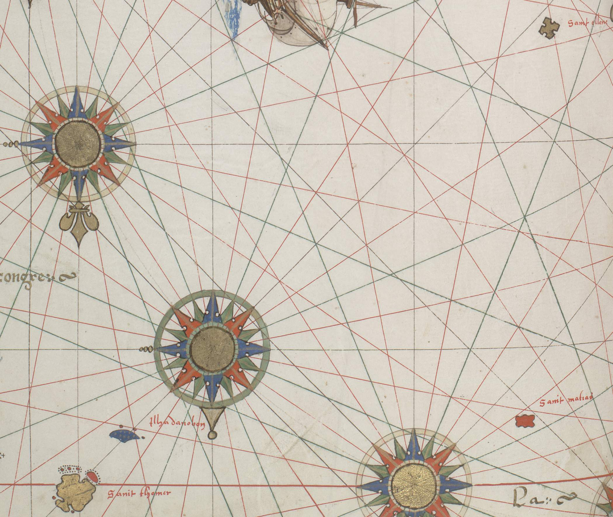 Portolan map showing Sao Tome, Annobon, St. Helena and phantom island of St. Matthew.